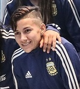 Mauricio Macri alongside the Argentina women's national association football team before the start of the 2019 Women's World Cup.